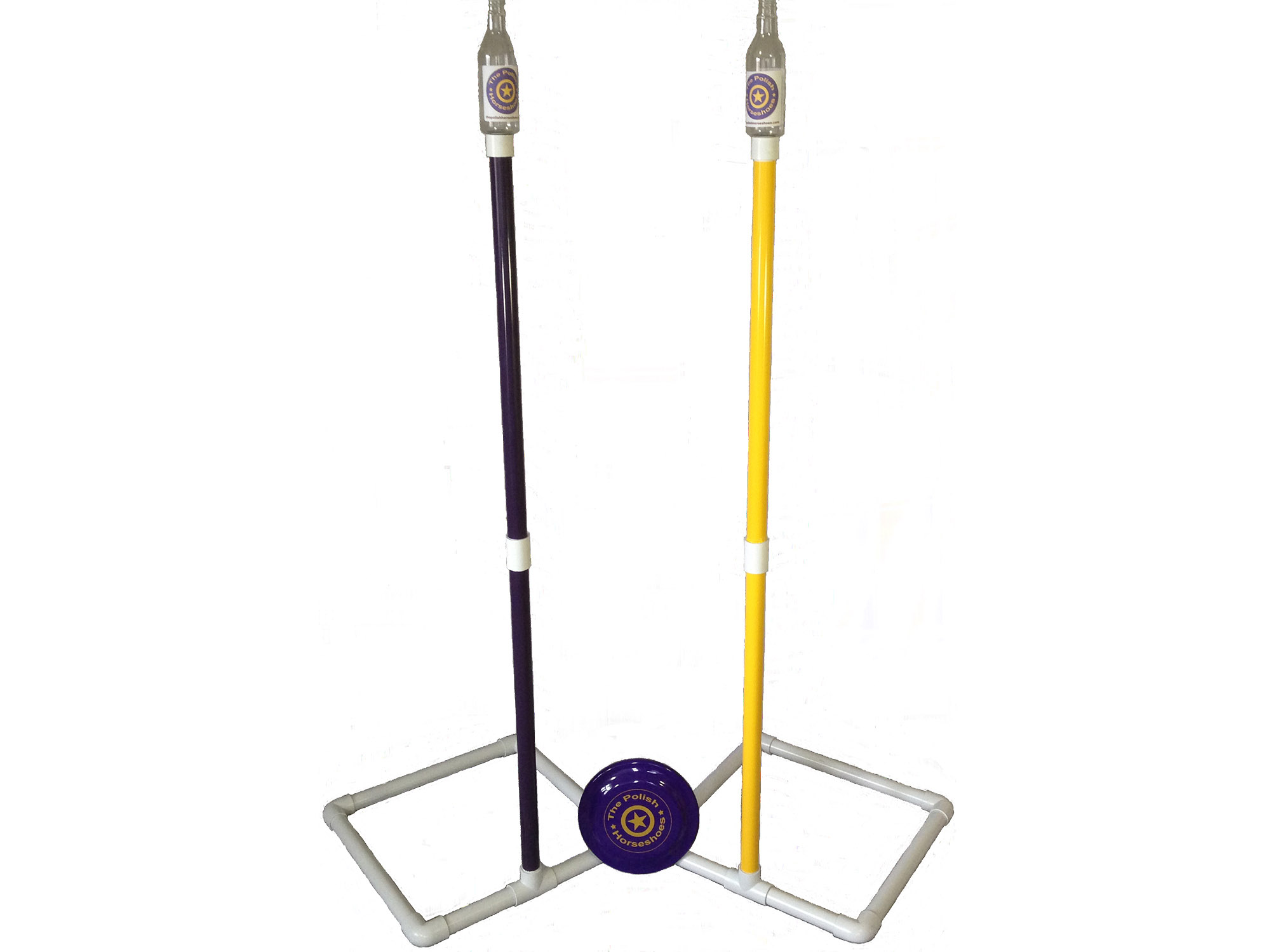 A Polish Horseshoes Set From .